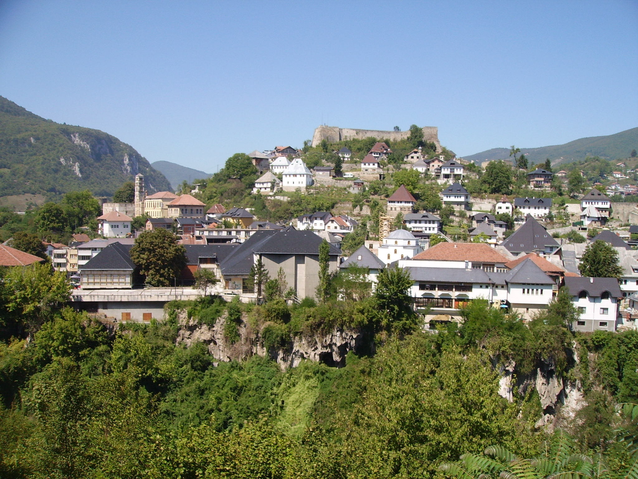 View on the old town of Jajce, BiH.